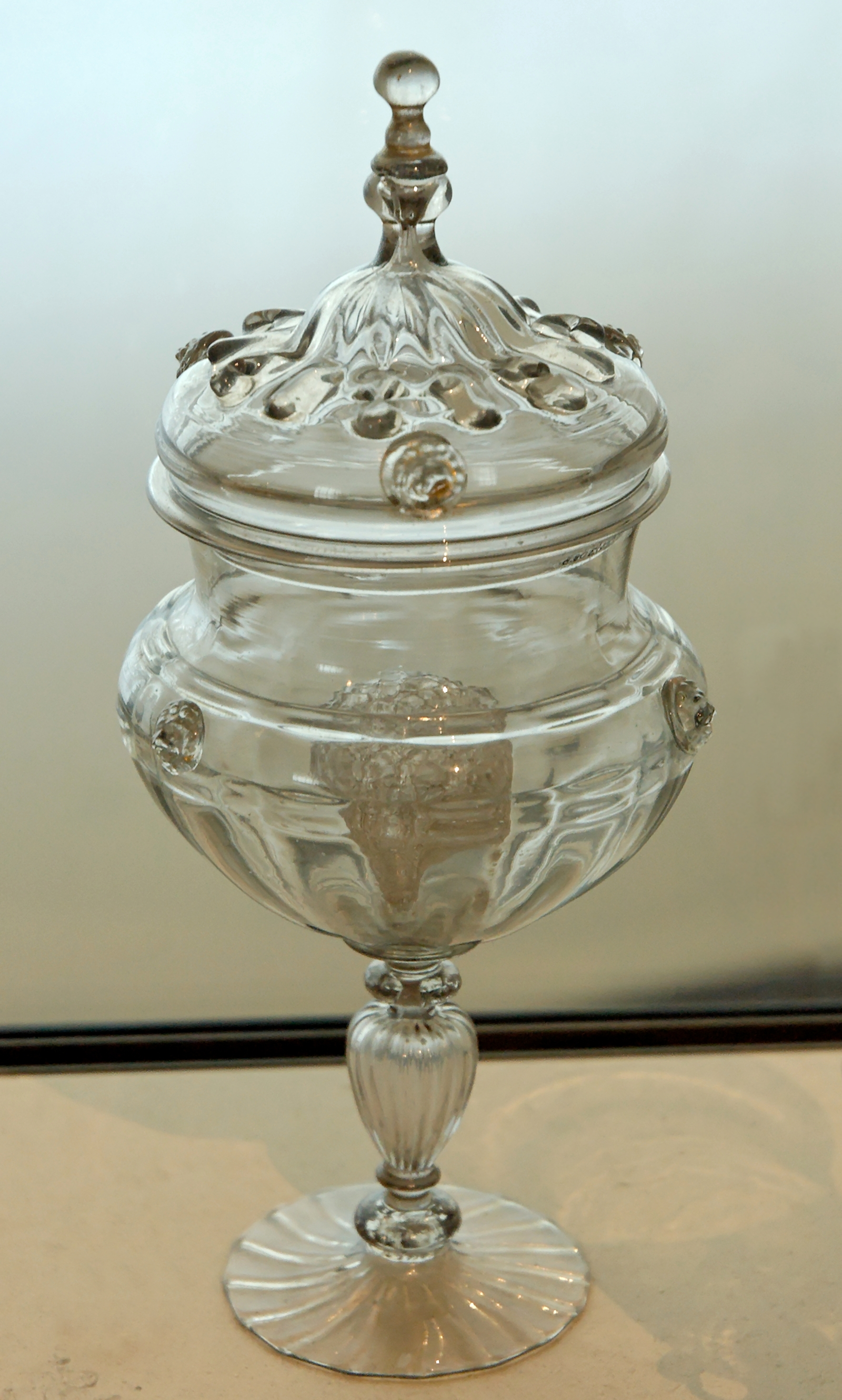 Standing covered cup. Water white glass and gold, Dutch production (?) after the manner of Venice, late 16th–early 18th century.